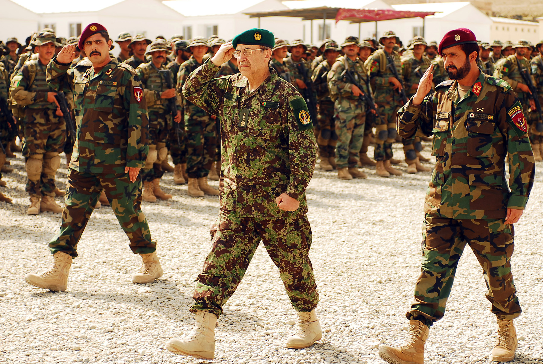 KABUL, Afghanistan (August 18, 2010) Afghan National Army (ANA) Lt. Gen. M. Akram, center, and Brig. Gen. Lawong, right, Commando Brigade Commander, and salute the troops prior to a graduation ceremony honoring new Commandos. More than 900 Afghan soldiers completed the extensive course to graduate and wear the red beret of the ANA Commandos. (US Navy photo by Chief Mass Communication Specialist F. Julian Carroll)